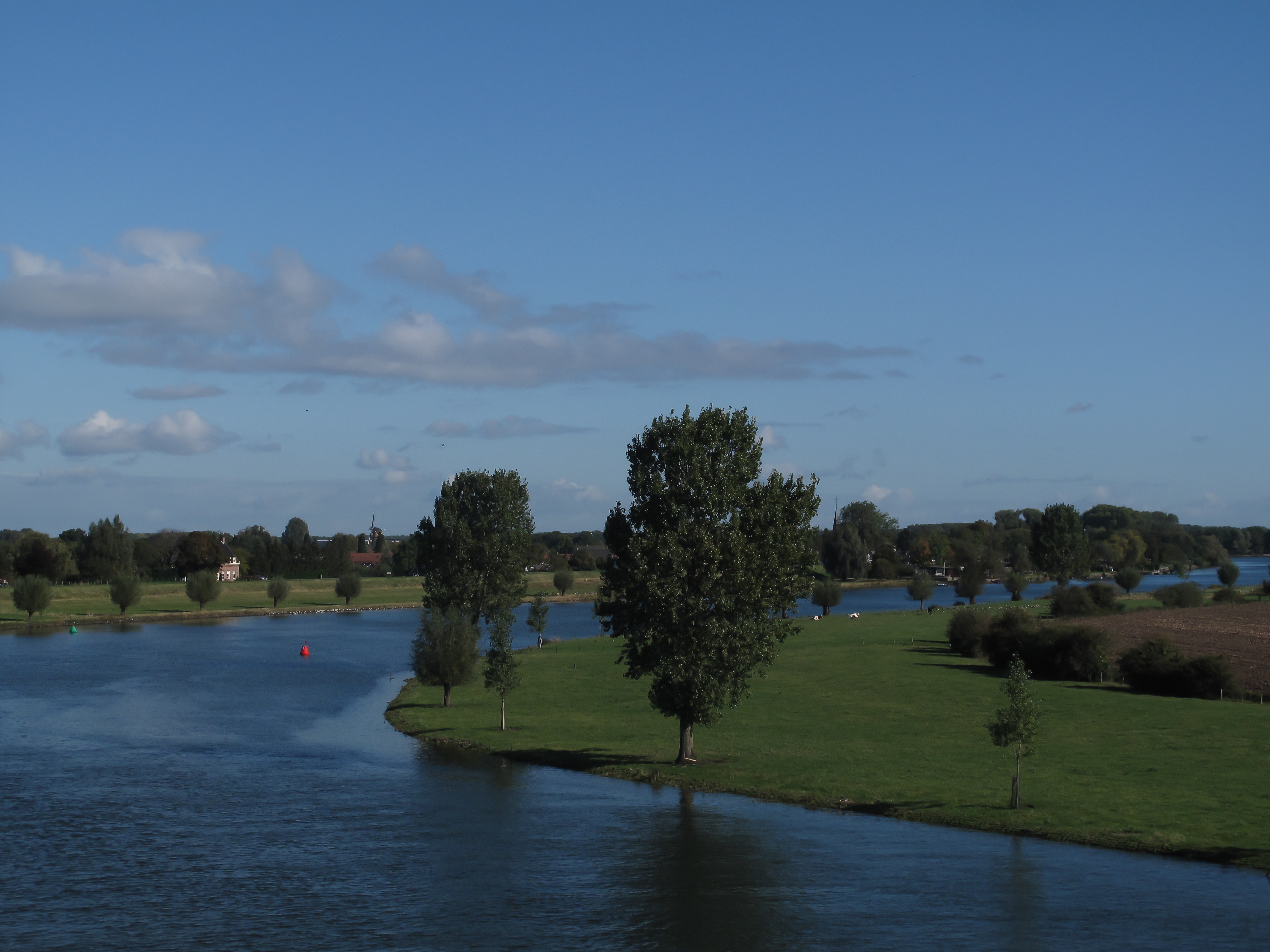 near Wijk en Aalburg, view to the village form bridge across the Heusdensch Kanaal